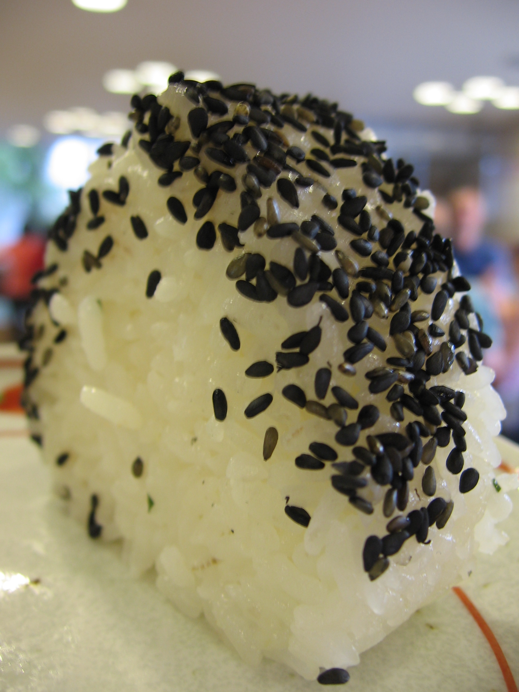 the best omiageOnigiri